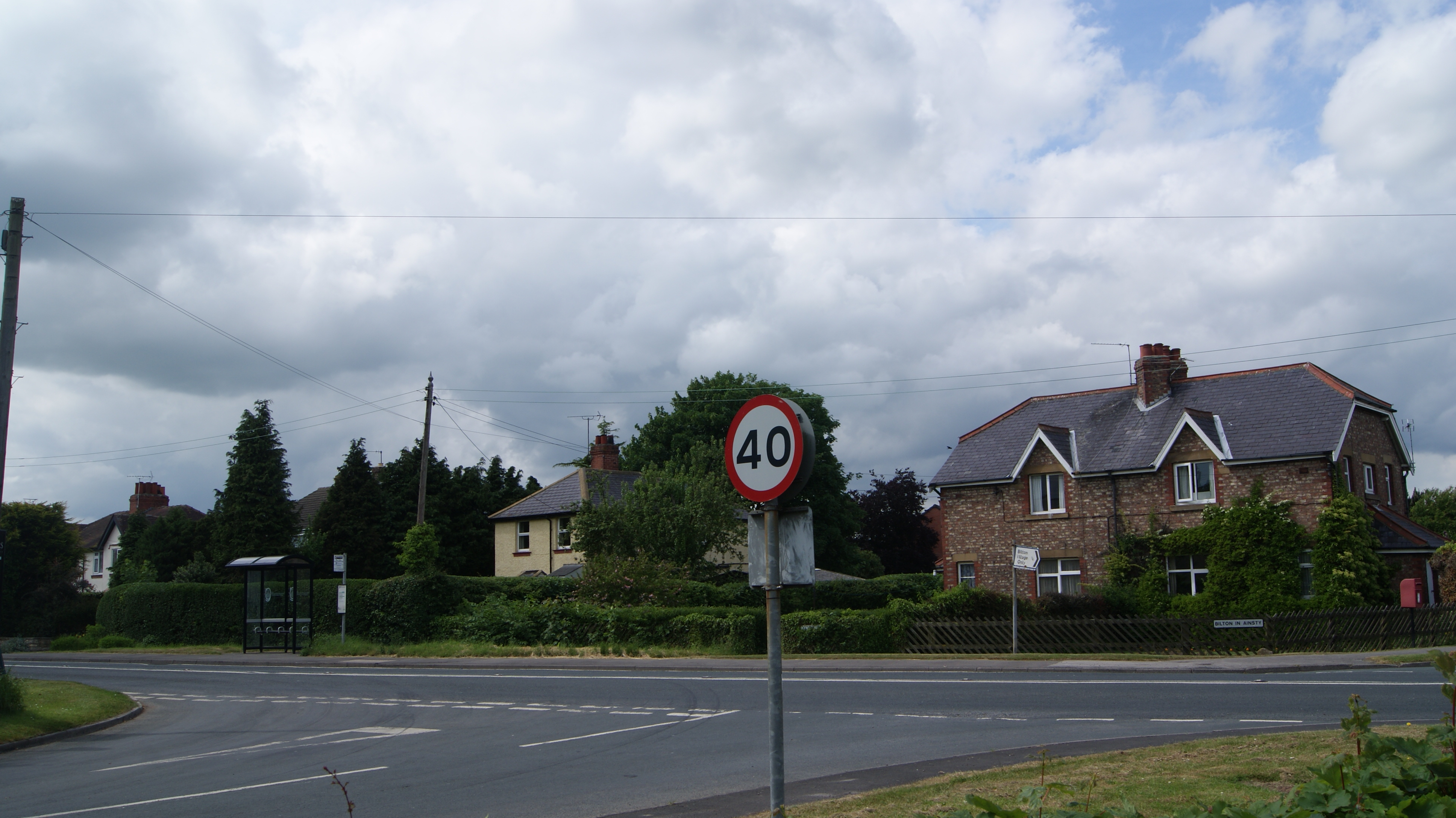 Bilton-in-Ainsty seen from the yard of St Helen's Church, Bilton-in-Ainsty, North Yorkshire. The road that can be seen is the B1224, the main Wetherby to York road. Taken on Wednesday the 12th of June 2013.